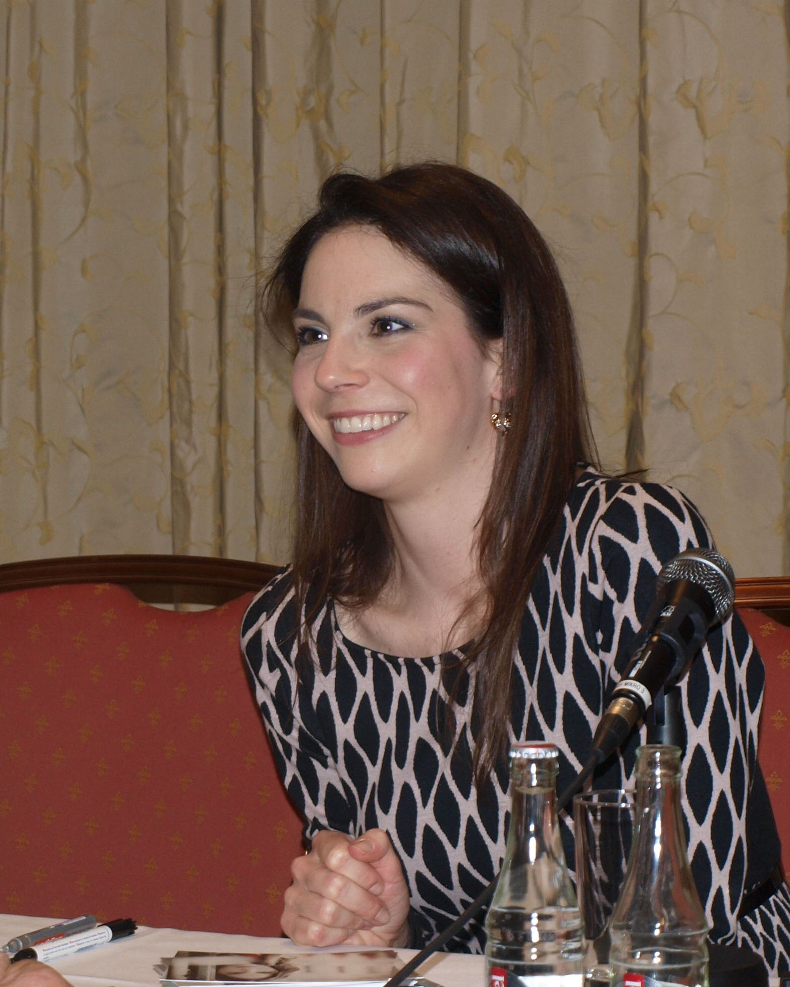 German opera singer Hanna-Elisabeth Müller during autograph session